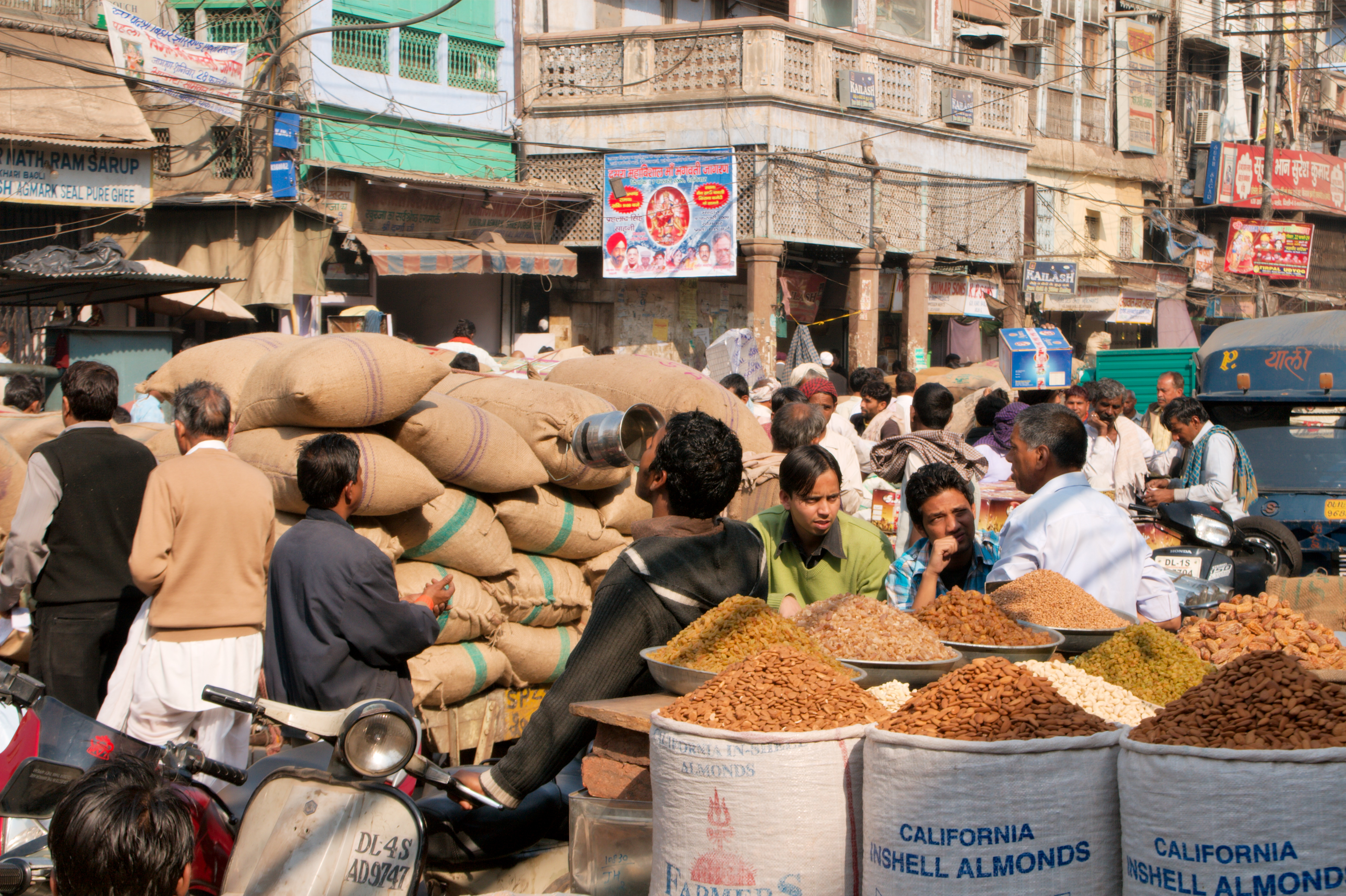 Chandni Chowk originally meaning moonlit square or market, is one of the oldest and busiest markets in Old Delhi, now in central north Delhi, India. Check out my travelblog at